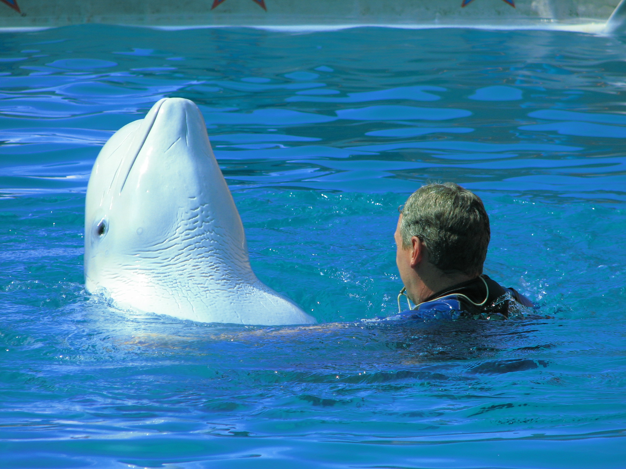 "Dance" performing beluga whale with the trainer. Sochi branch of Utrish Dolphinarium. Adler (Sochi)